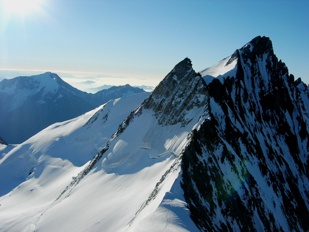 Stecknadelhorn and Nadelhorn, Pennine Alps, Switzerland